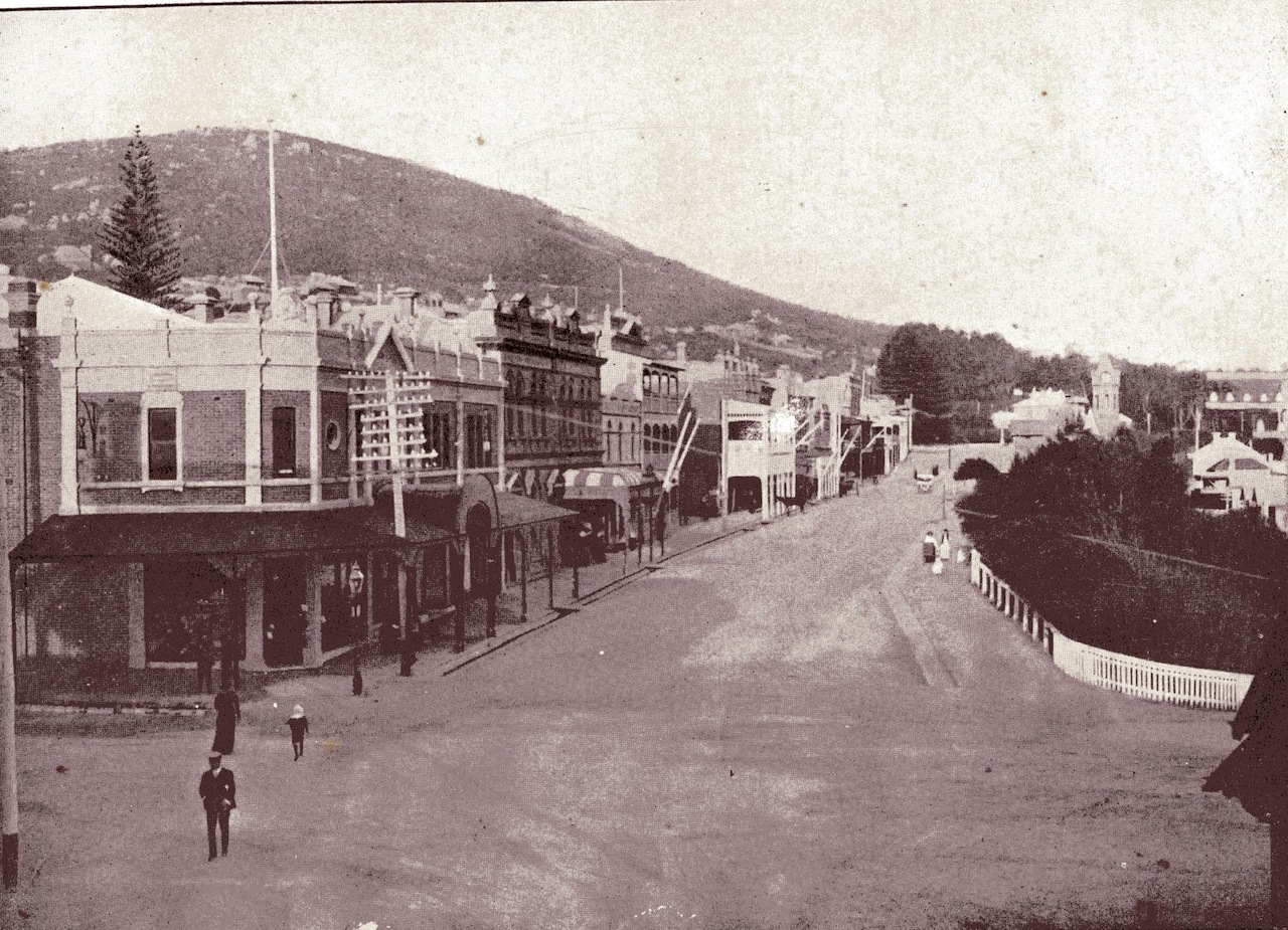 Stirling Terrace in 1912 from the Alluring Albany book - W.F. Forster & Co, title=Alluring Albany : handbook for the port and back country and guide to the chief West Australian health resort, publication-date=1912, publisher=W.F. Forster & Co. edition=3rd year of publication, url=